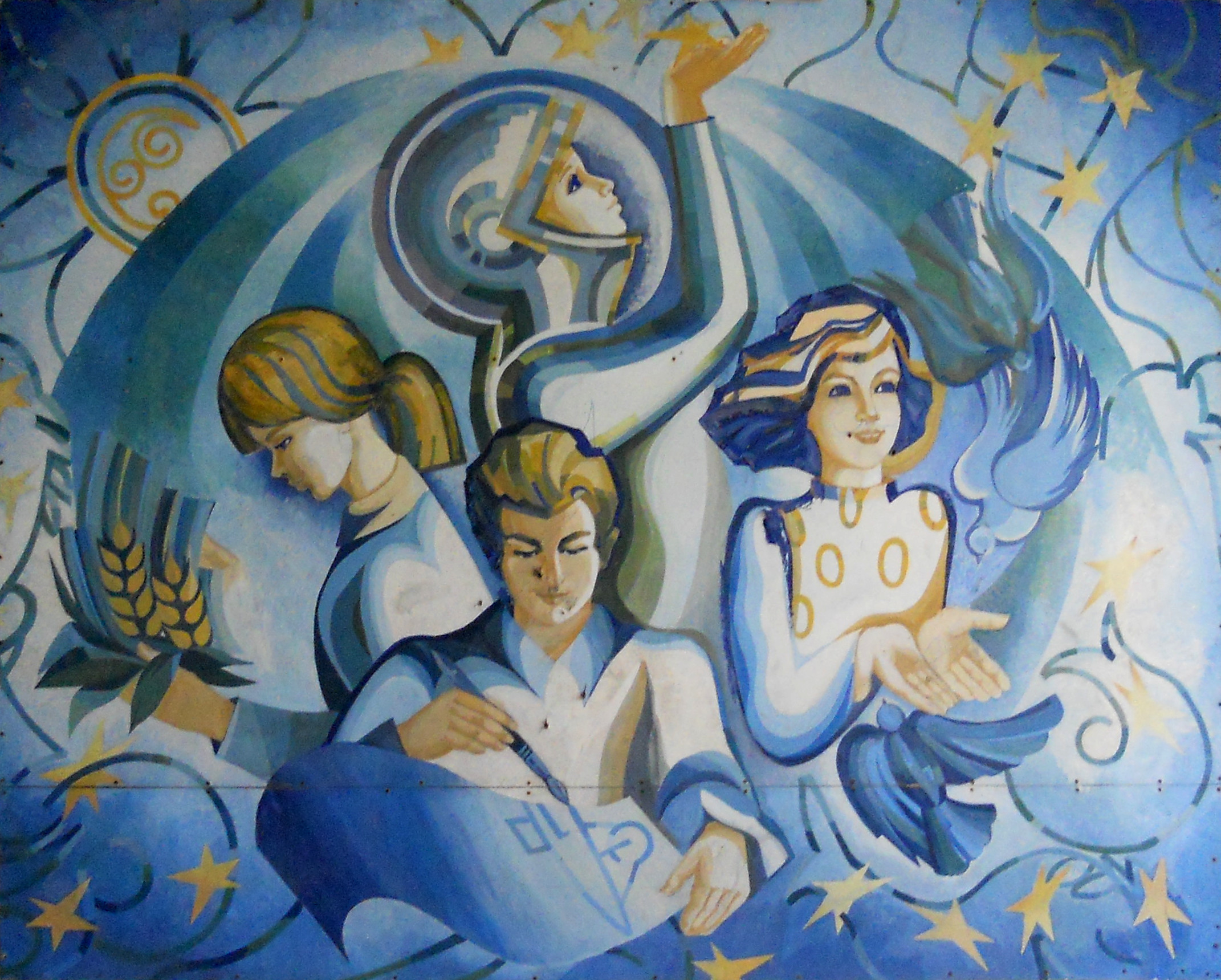 Phantasmagorical Soviet painting in Pripyat, Ukraine, showing the Sun, stars, and four people: one in a cosmonaut's helmet; another releasing a dove, a third sketching with a brush, and the fourth harvesting wheat.